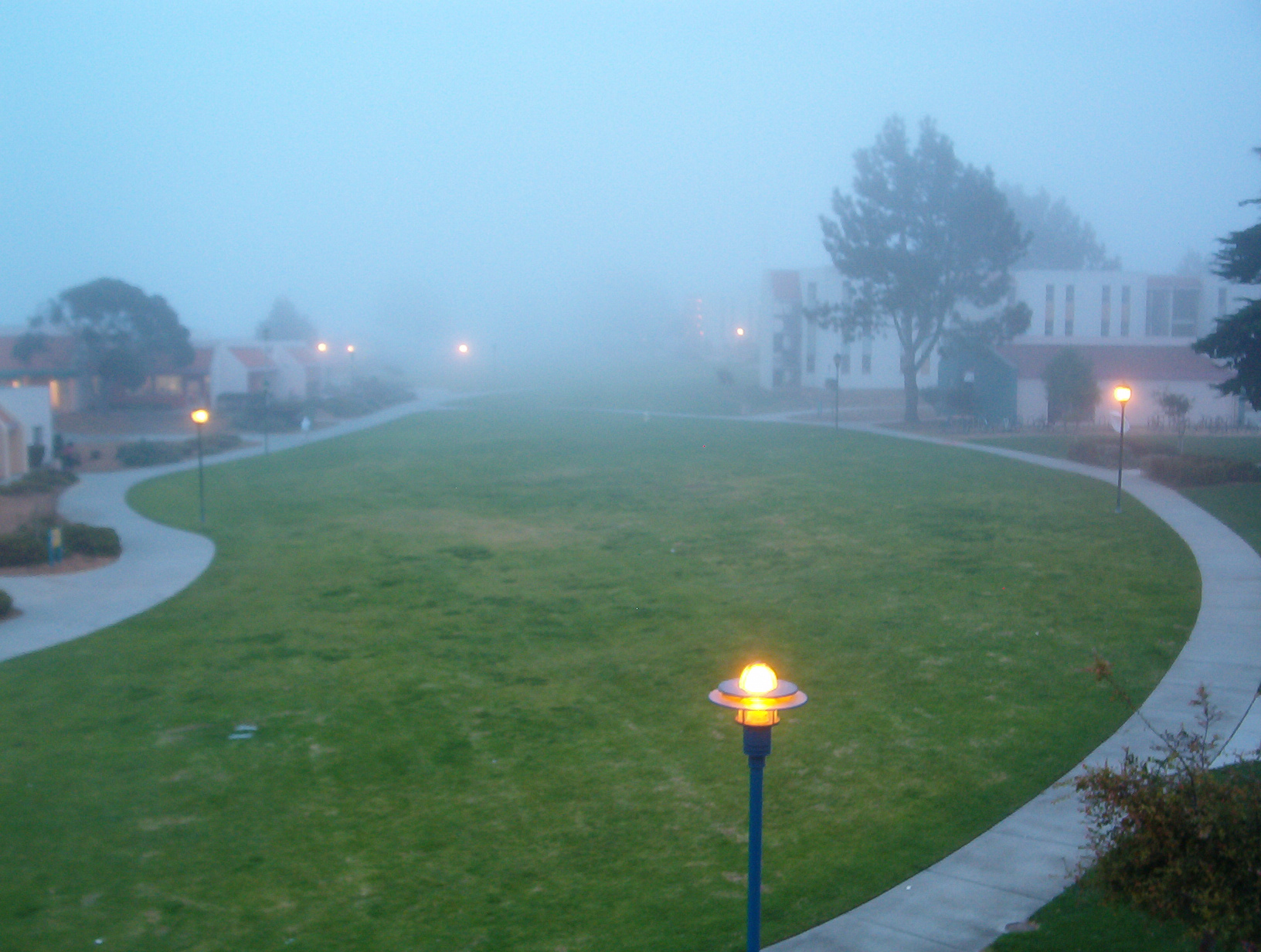 I am the author of this photo. I took it during the fall of 2004 from the third floor of building 210 at CSUMB. It well represents the extreme fog that can often cover the entire campus. I feel it is fair to show to the public because no persons are displayed and the area (the CSUMB campus) is already considered public.